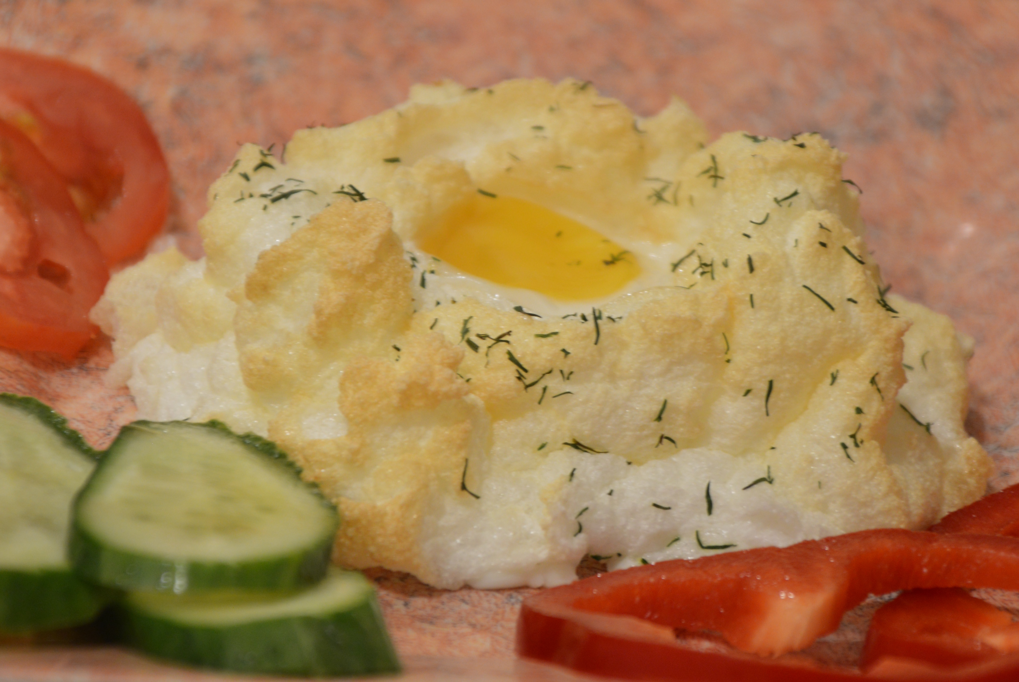 Omelette baked